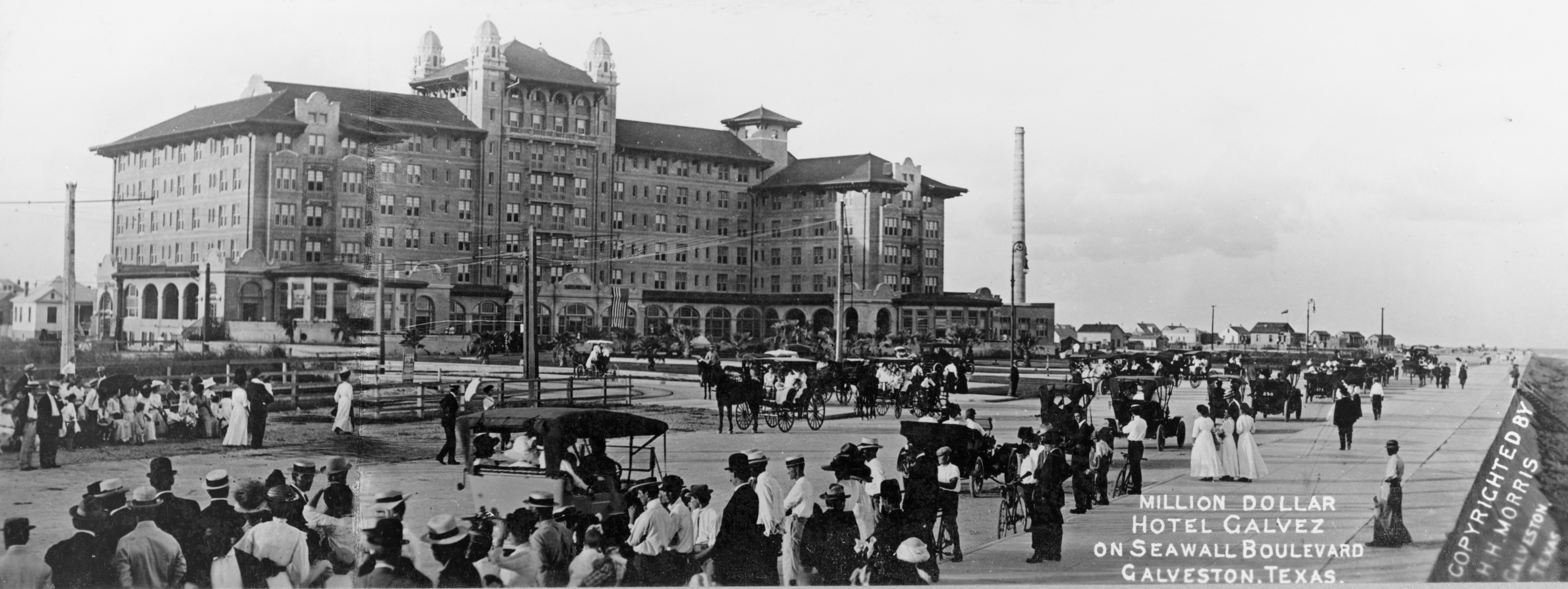 Million dollar Hotel Galvez on Seawall Boulevard, Galveston, Texas, c. 1911